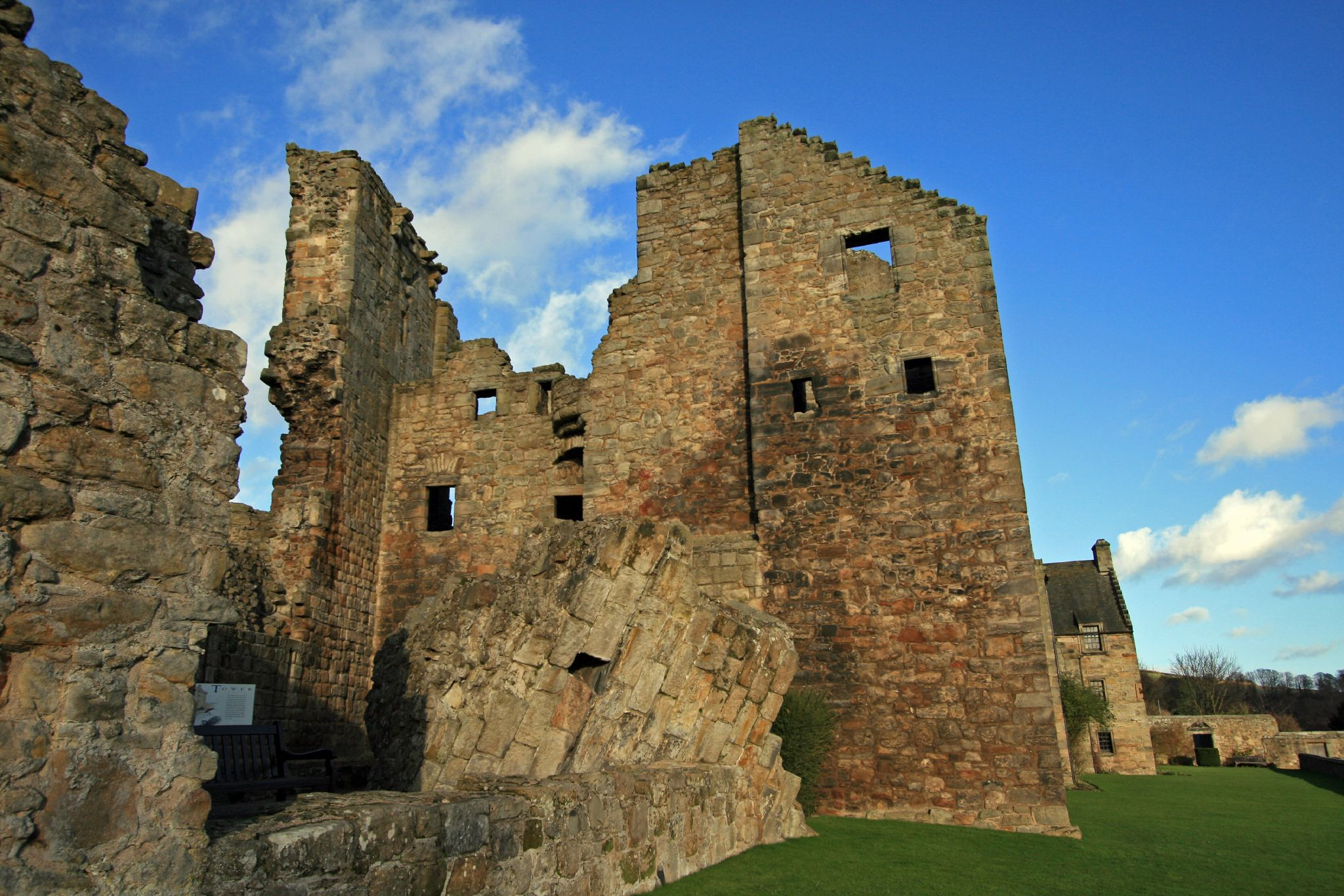 The ruins of the tower of Aberdour Castle. The last wing (which houses the painted ceiling) to be added can be seen at the edge of the photograph.